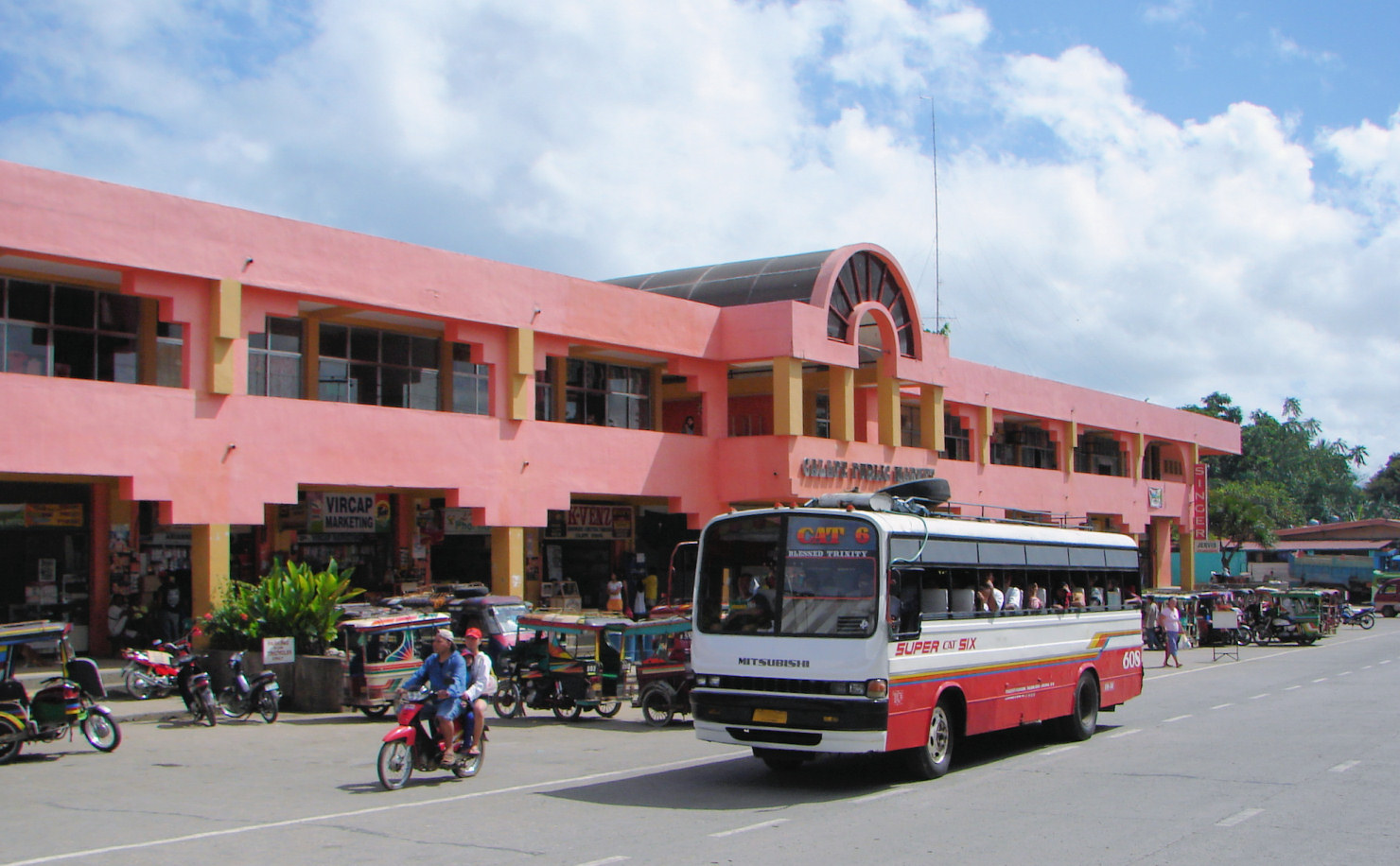 Calape Public Market, Bohol, Philippines